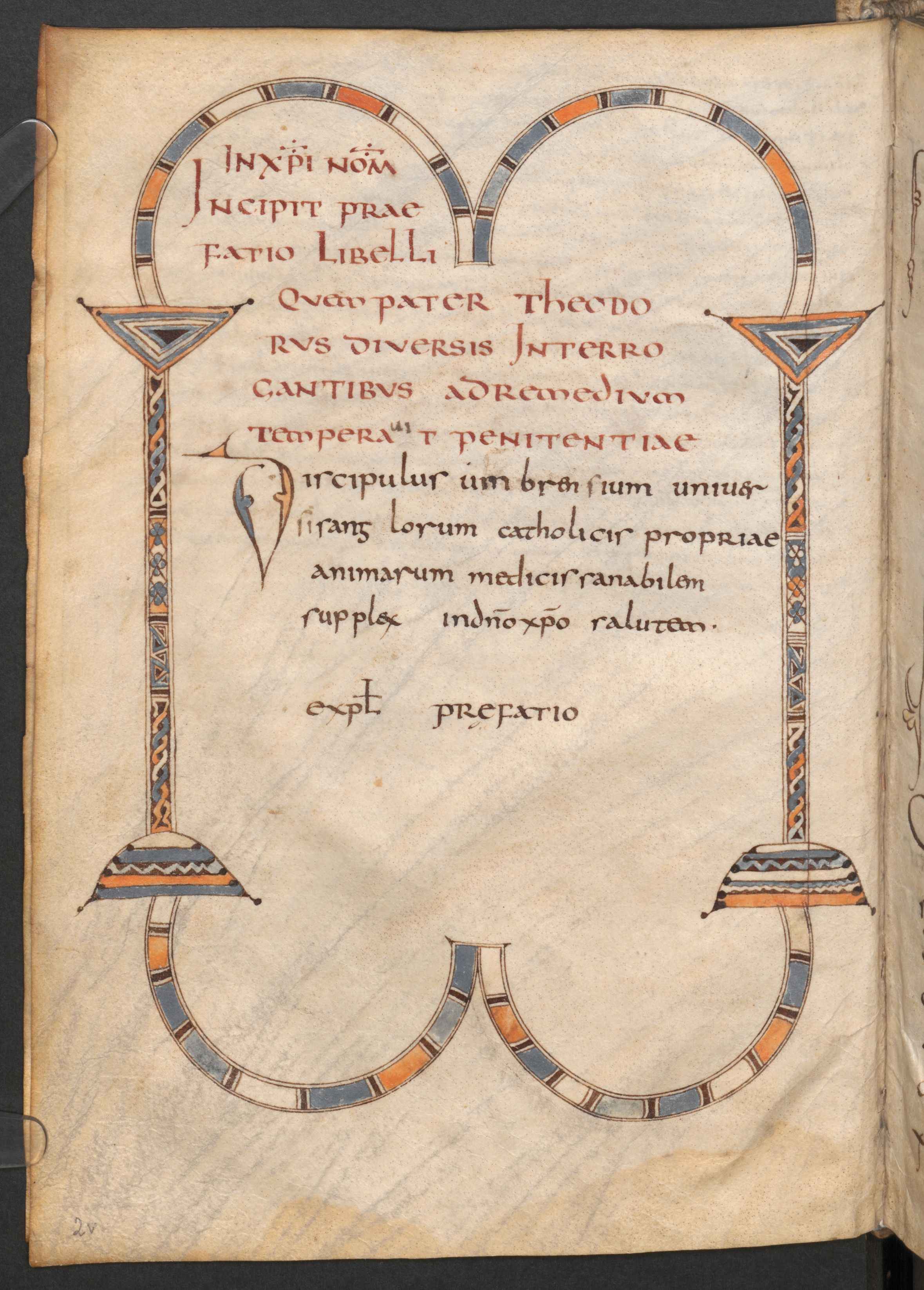 Vienna, Österreichische Nationalbibliothek, Lat. 2195, fol. 2v